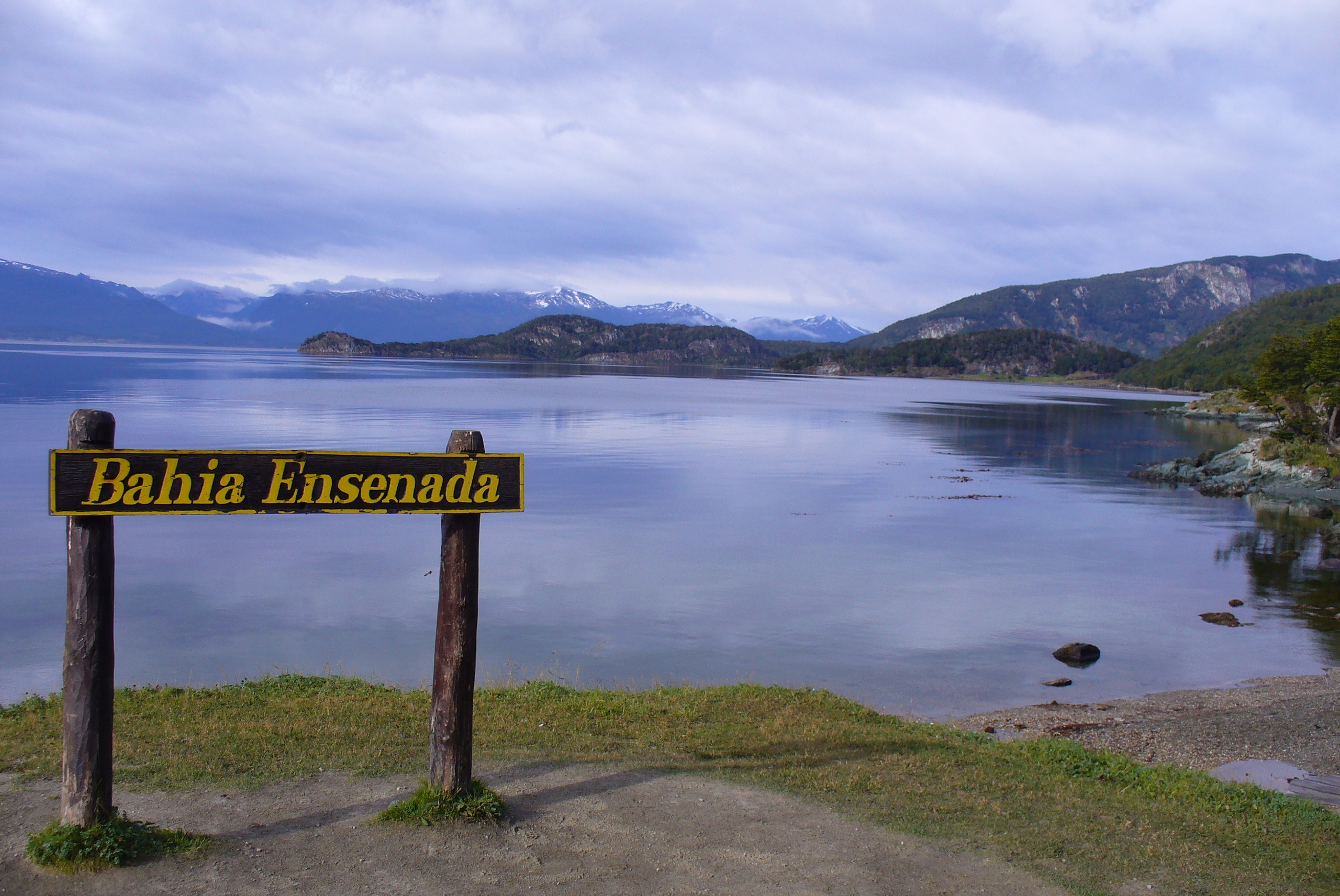 Bahía Ensenada is a bay located on the Beagle Channel in Tierra del Fuego National Park, Province: Tierra del Fuego, Argentina.